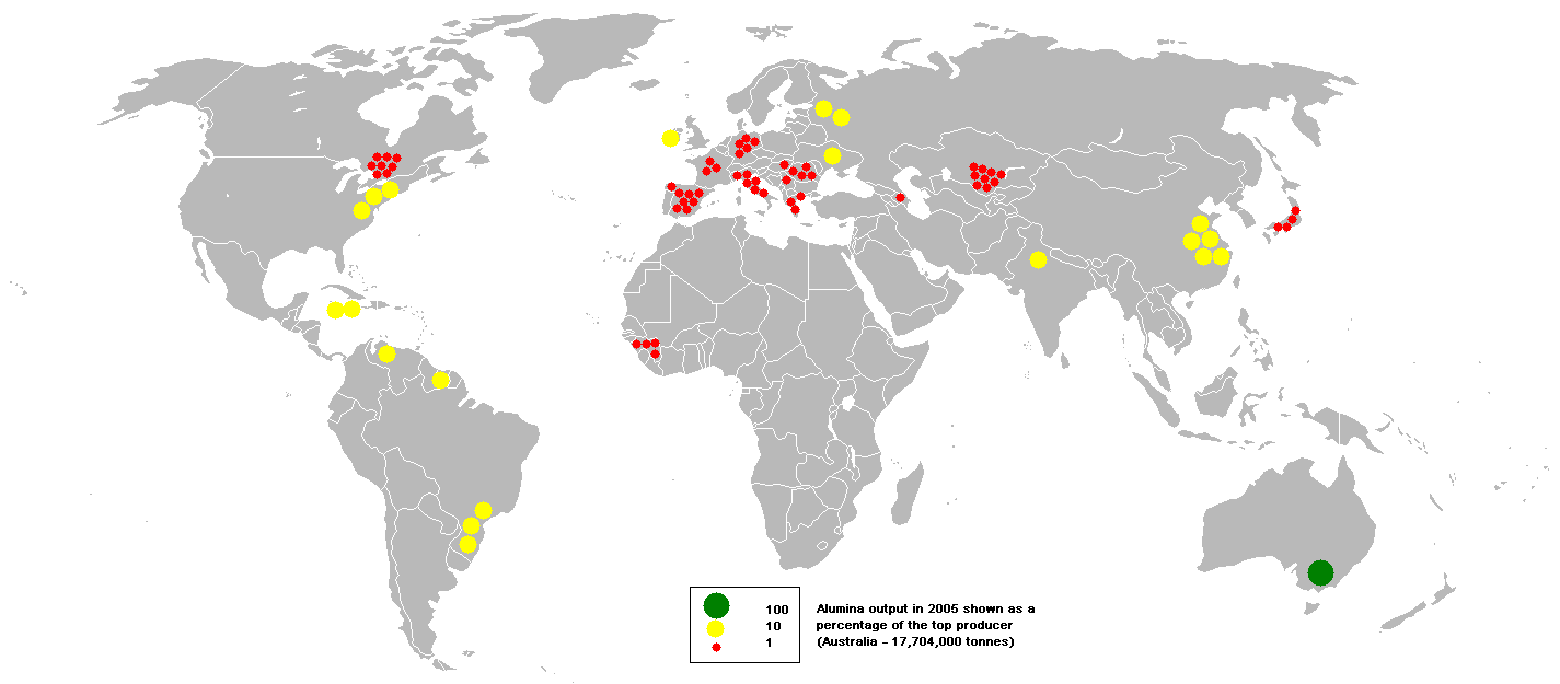 This bubble map shows the global distribution of alumina output in 2005 as a percentage of the top producer (Australia - 17,704,000 tonnes). This map is consistent with incomplete set of data too as long as the top producer is known. It resolves the accessibility issues faced by colour-coded maps that may not be properly rendered in old computer screens. Data was extracted on 9th June 2007. Source - Based on :Image:BlankMap-World.png